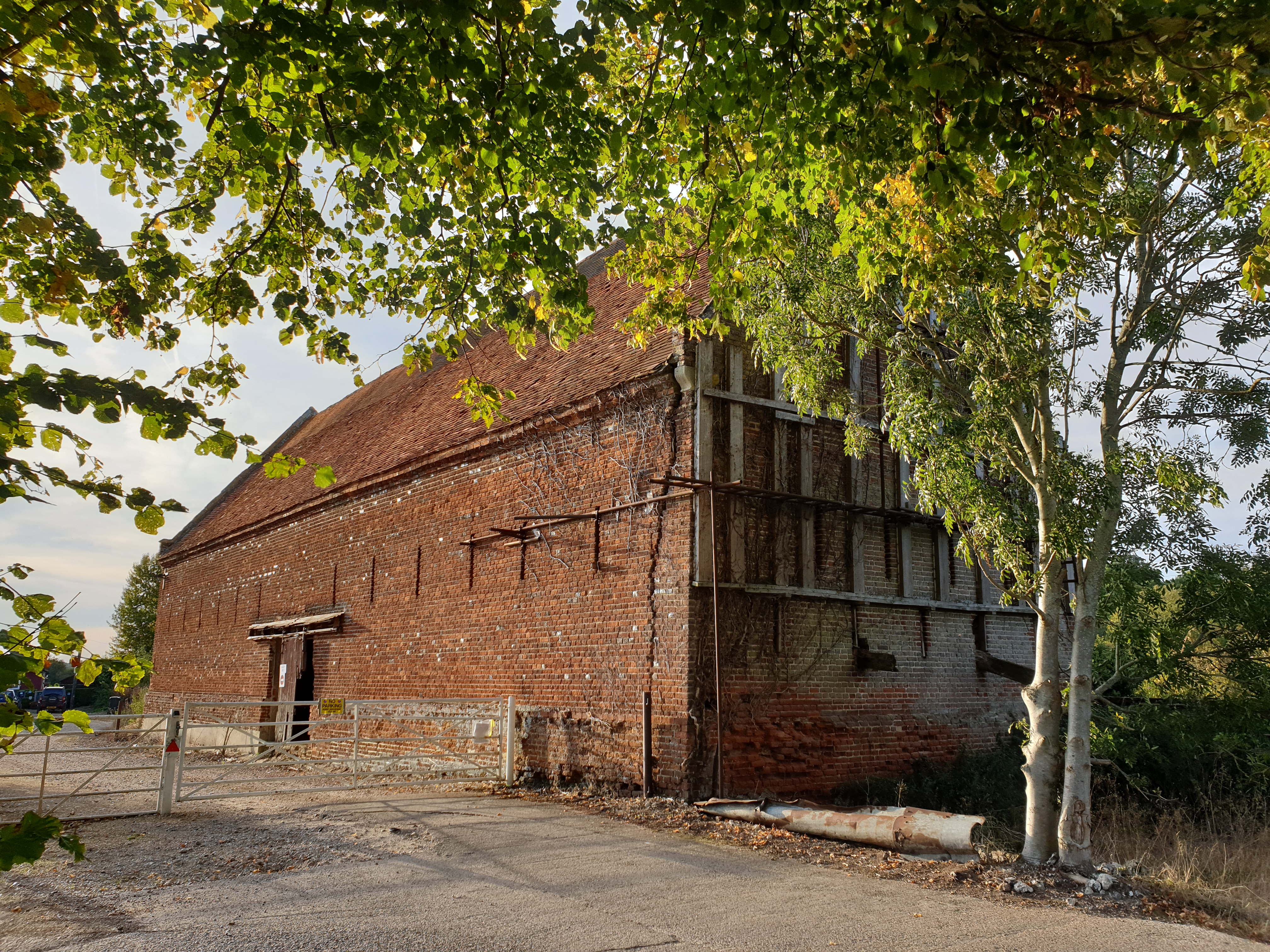 The Chazey Court Barn is, despite being a Grade I listed building, in a desperate state of disrepair. It is situated at Chazey Court Farm, which is at the far end of the Warren, in Reading, UK.